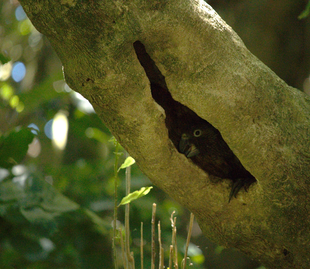 Two fledglings and a parent were crammed into this tree hollow